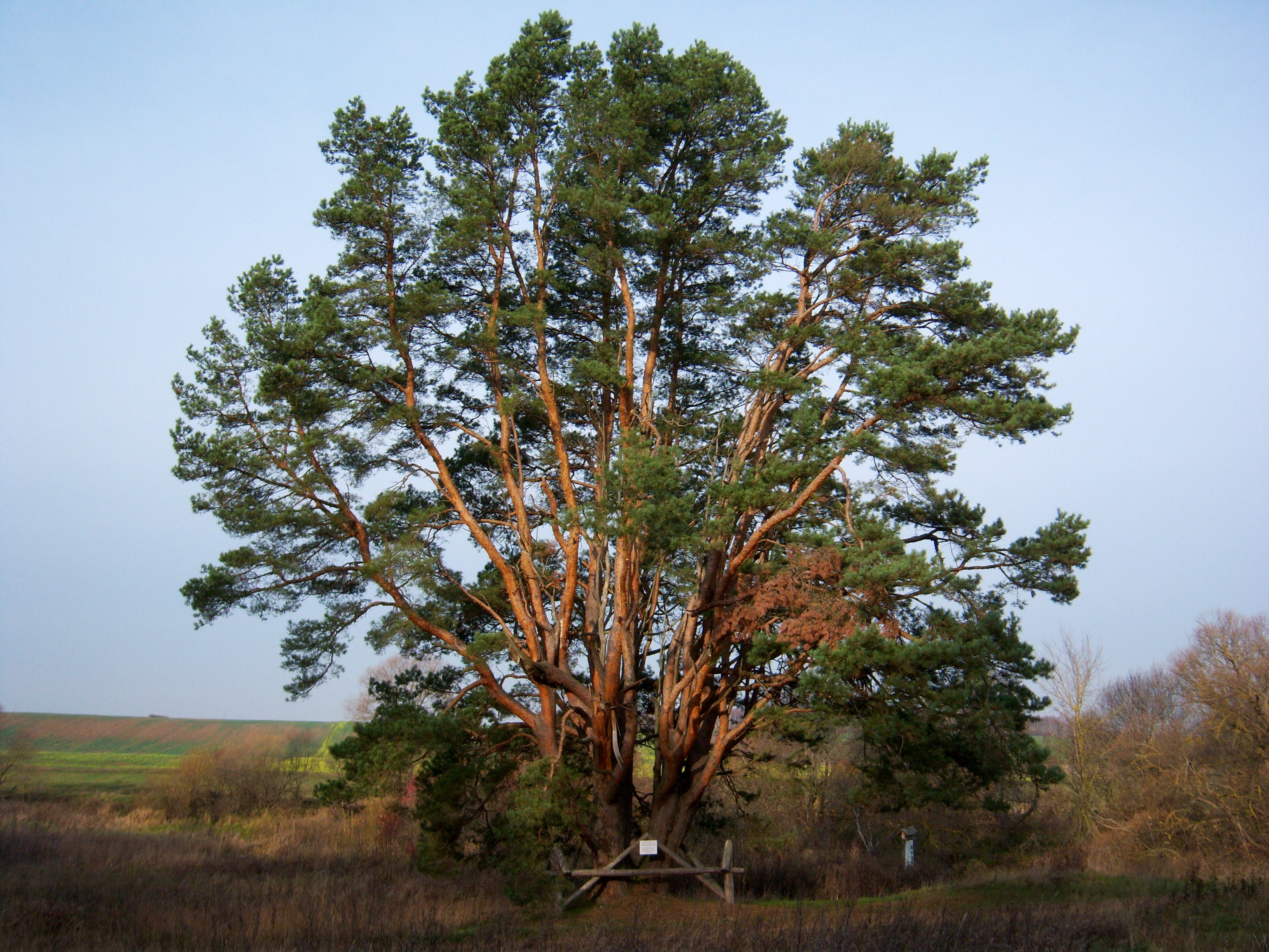 Pine tree with many trunks in Kalnelis, Panevėžys District, Lithuania